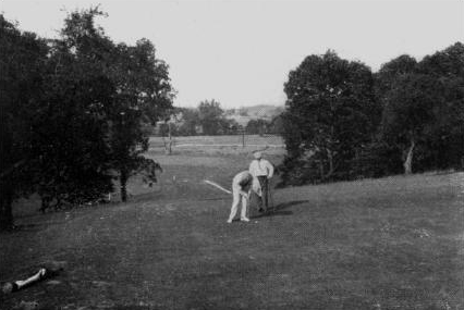 16th green of George C. Thomas' Whitemarsh Valley golf course. View from behind the green, tee shot on this par 3 needs to thread the trees.